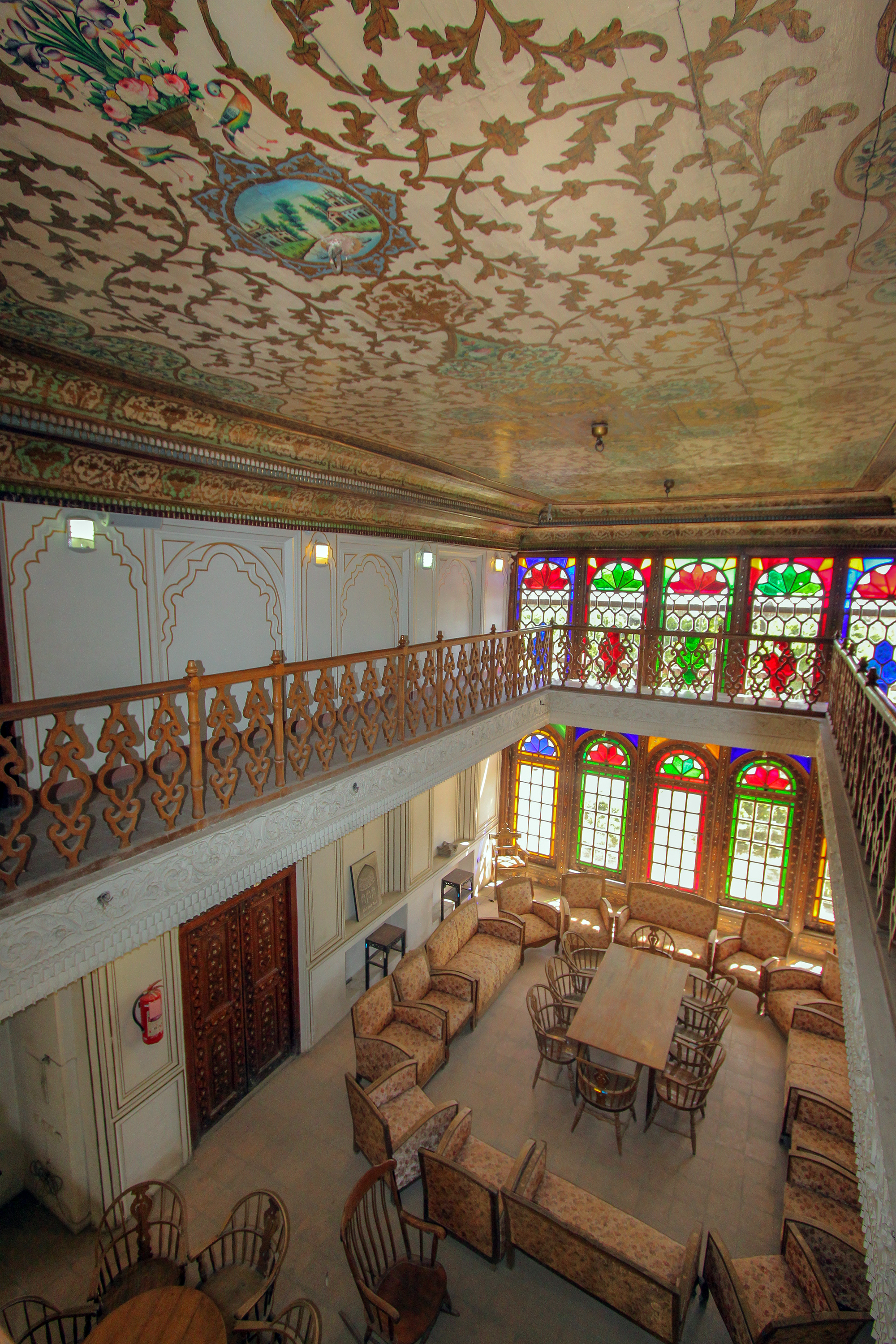 Qavam House is a traditional and historical house in Shiraz, Iran. It is at walking distance from the Khan Madrassa.